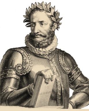 Luís de Camões, Portuguese's greatest poet..